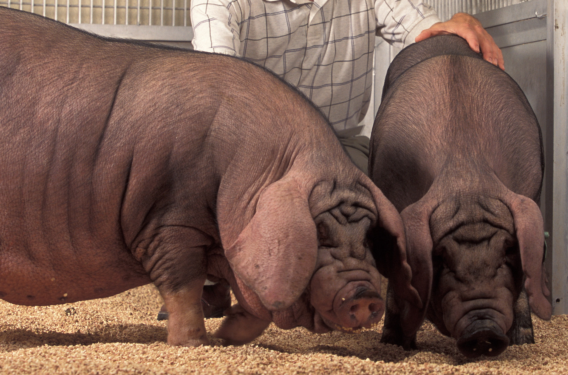 Cropped version of USDA ARS Meishan pigs.jpg